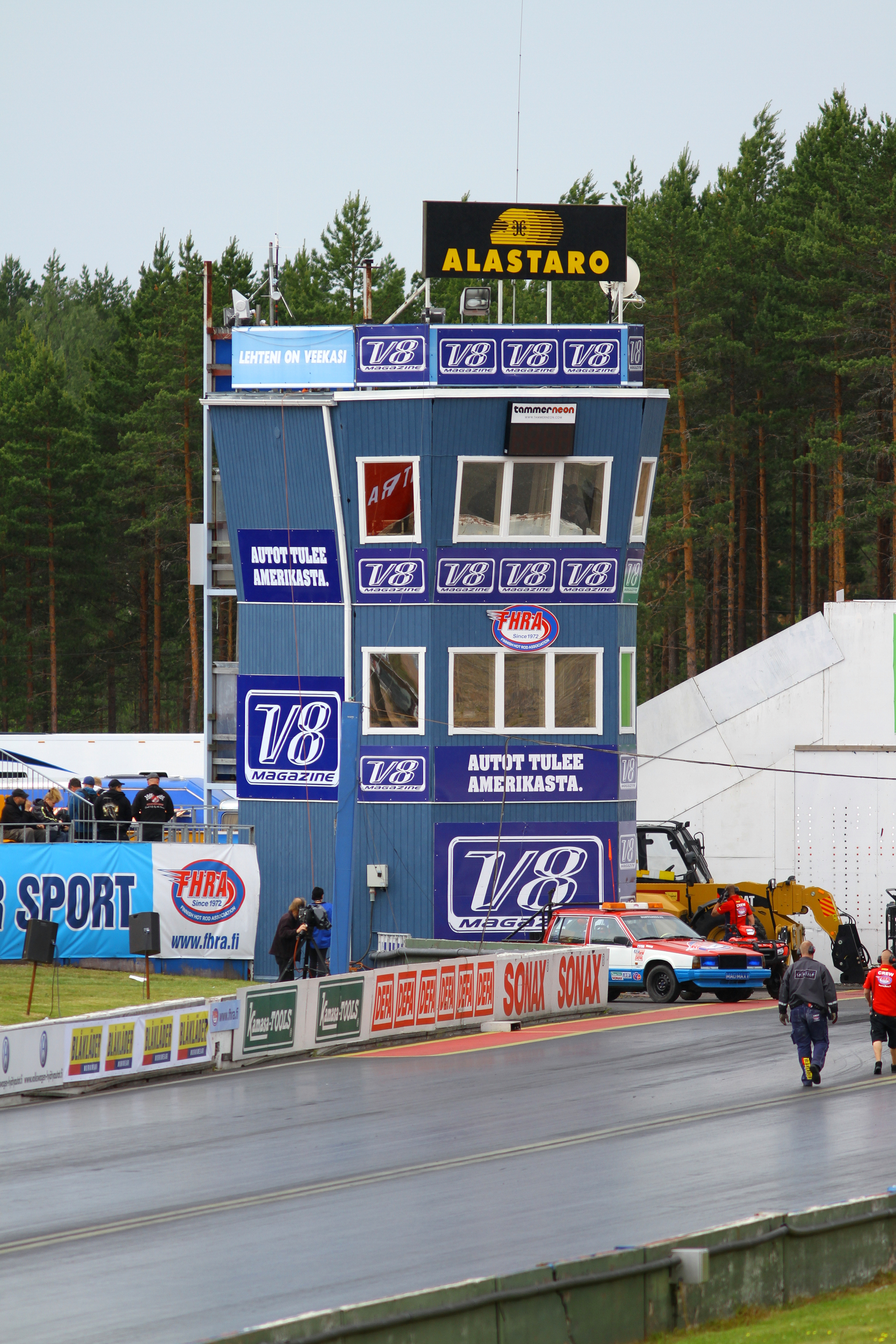 FHRA Kamasa Drag Race Week at Alastaro Circuit, Finland.